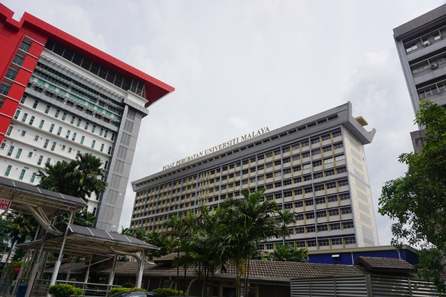 The Main Tower of UMMC